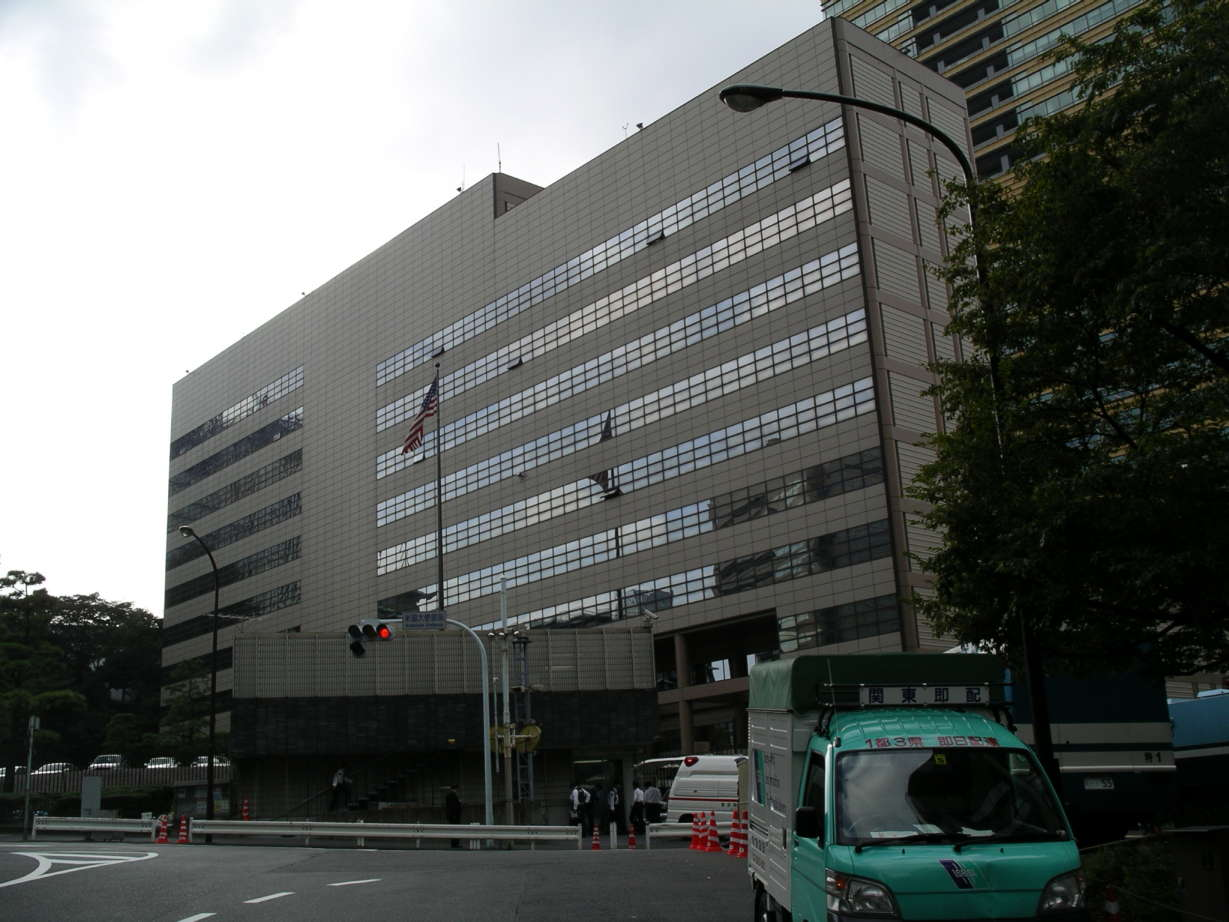 Yes, I did ask the police before I took this.